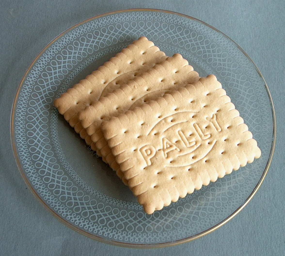 Pally biscuit(s) (IM012796.JPG)